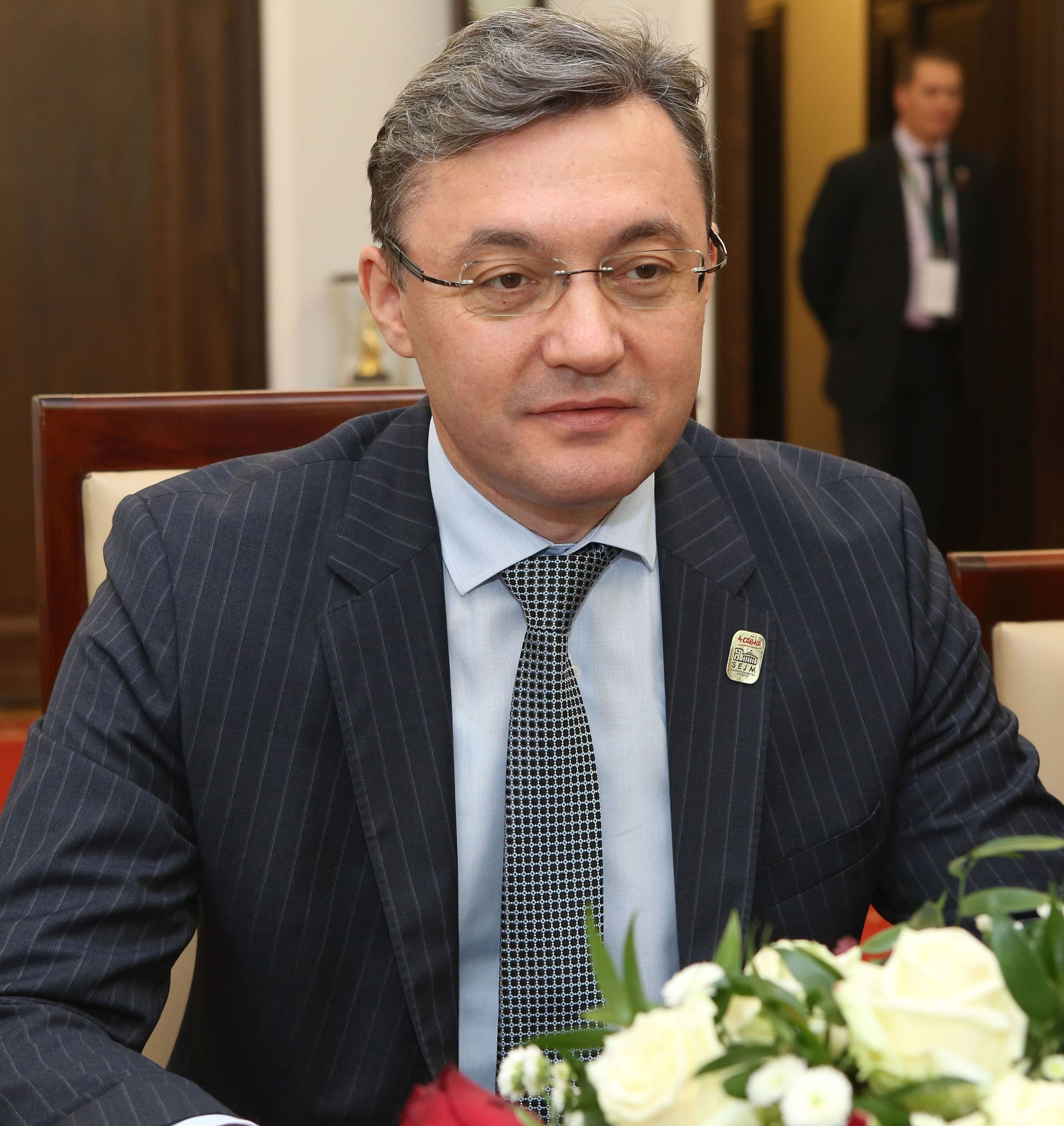 President of the Parliament of Moldova Igor Corman in the Polish Senate